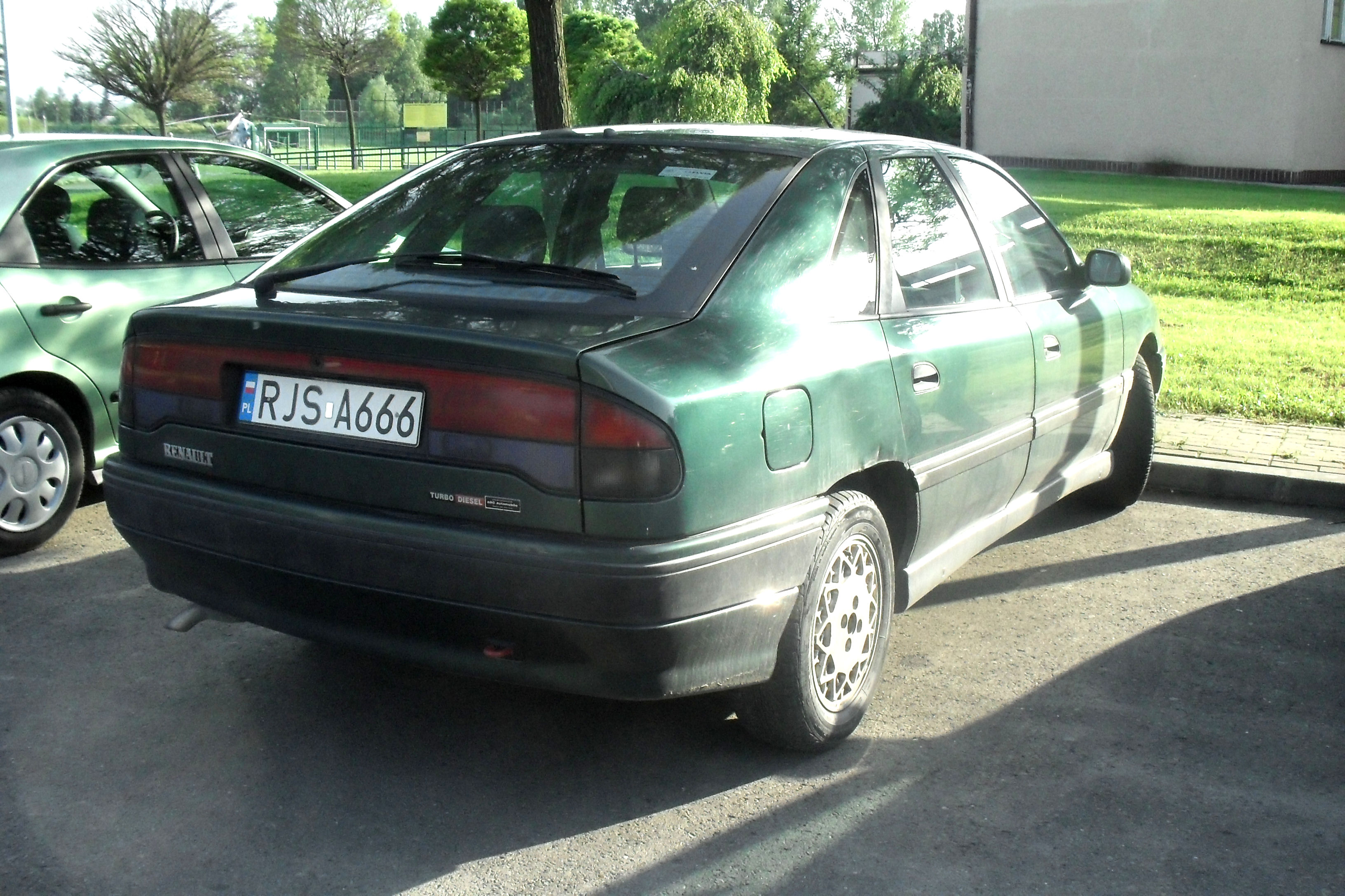 Renault Safrane seen in Jasło, Poland.